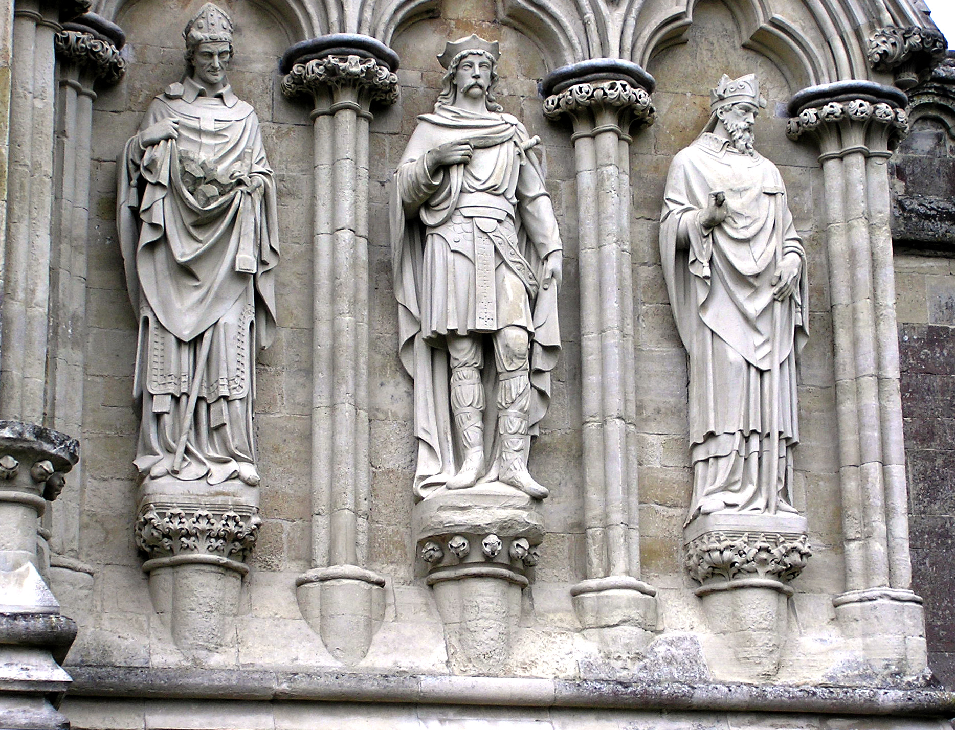 Statue detail from the right side of Salisbury Cathedral main front. Photographed by Adrian Pingstone in June 2006 and placed in the public domain.